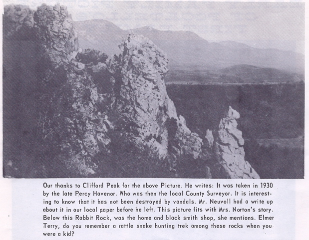 Ingacom is the Shoshone name for Inkom. This is a 1930 picture of that rock formation.